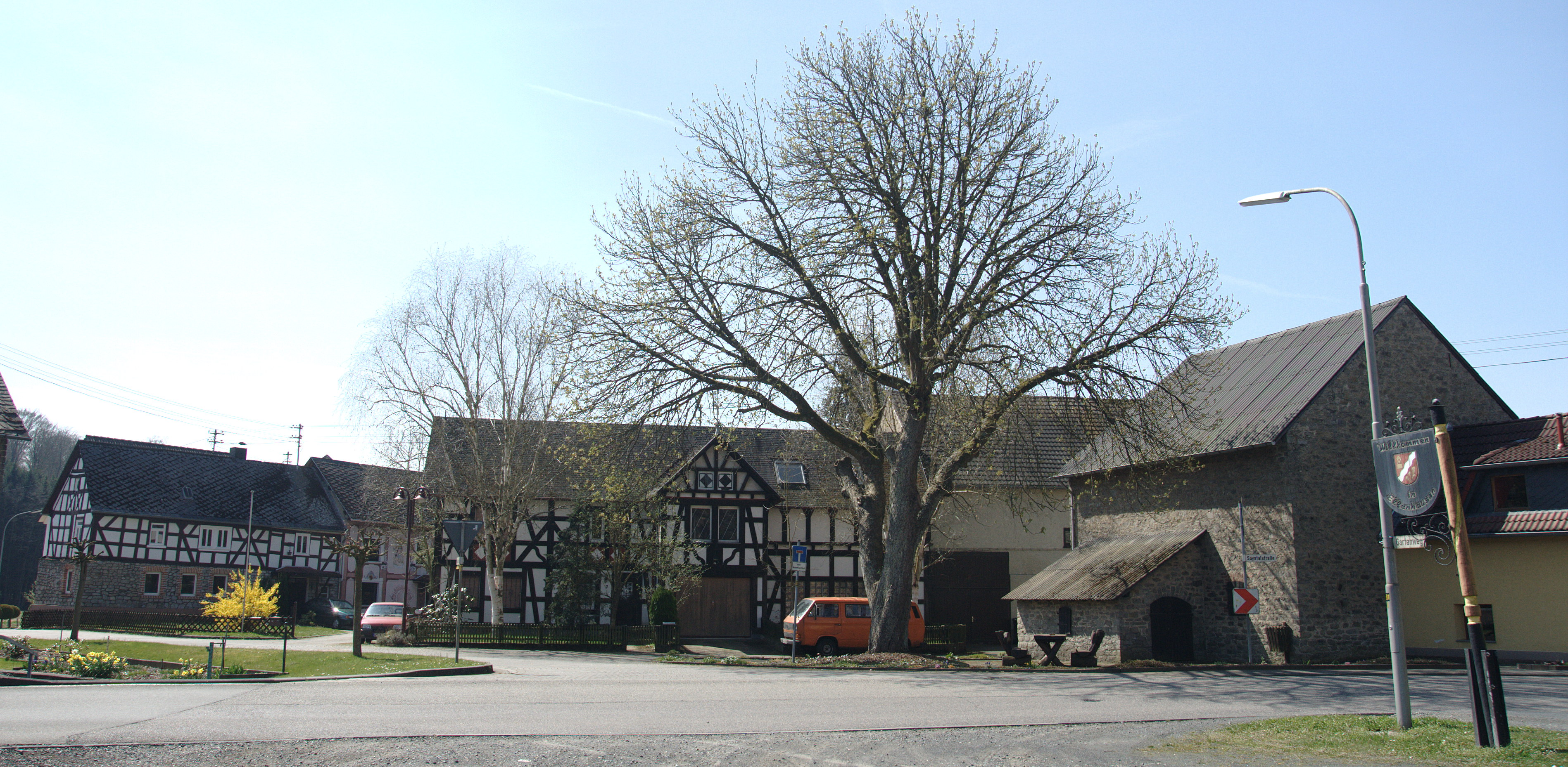 Village view in Ellenhausen, Westerwald, Germany.